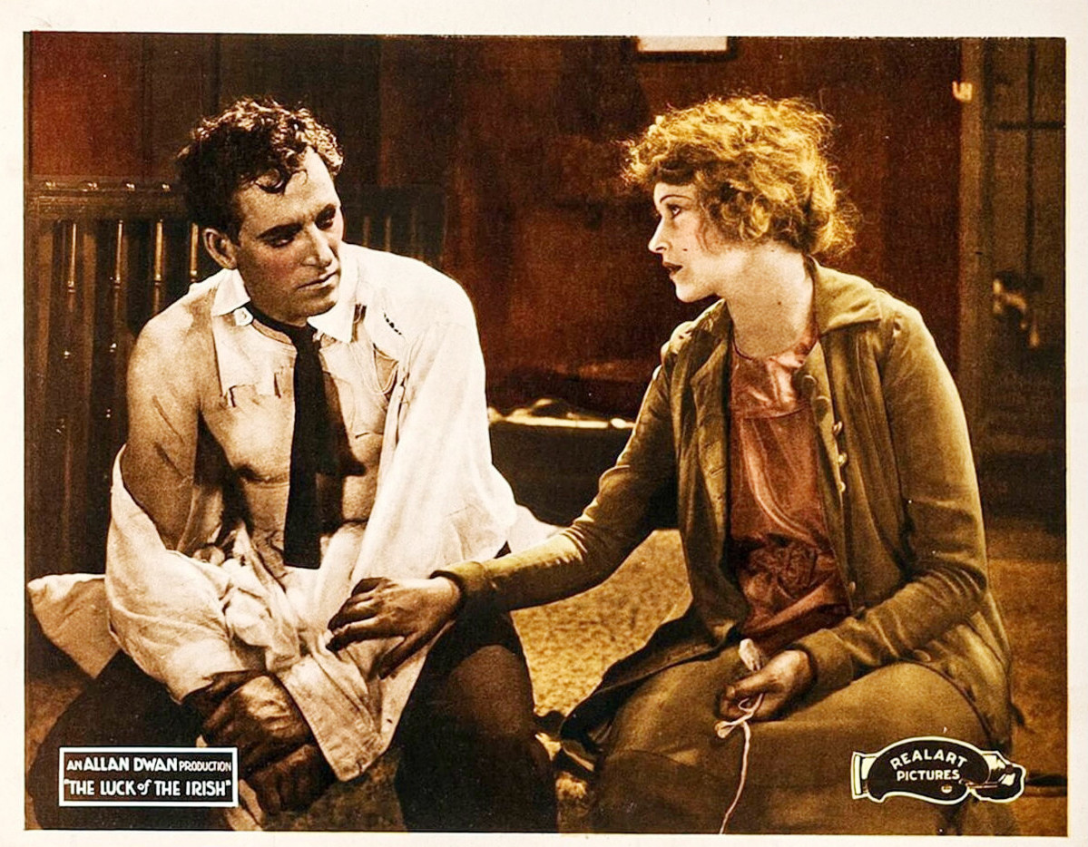 Lobby card for the American drama film The Luck of the Irish (1920).